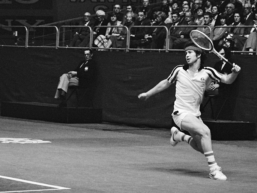 American tennis player John McEnroe at the 1979 ABN Tennis Tournament in Rotterdam